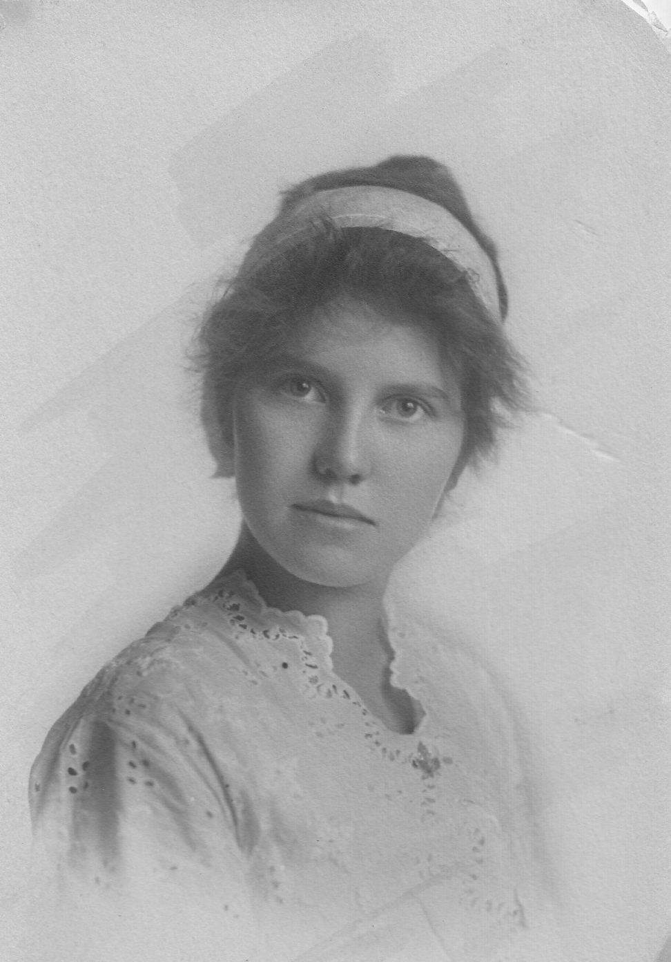 Helen M. Roberts 1912, while attending USC